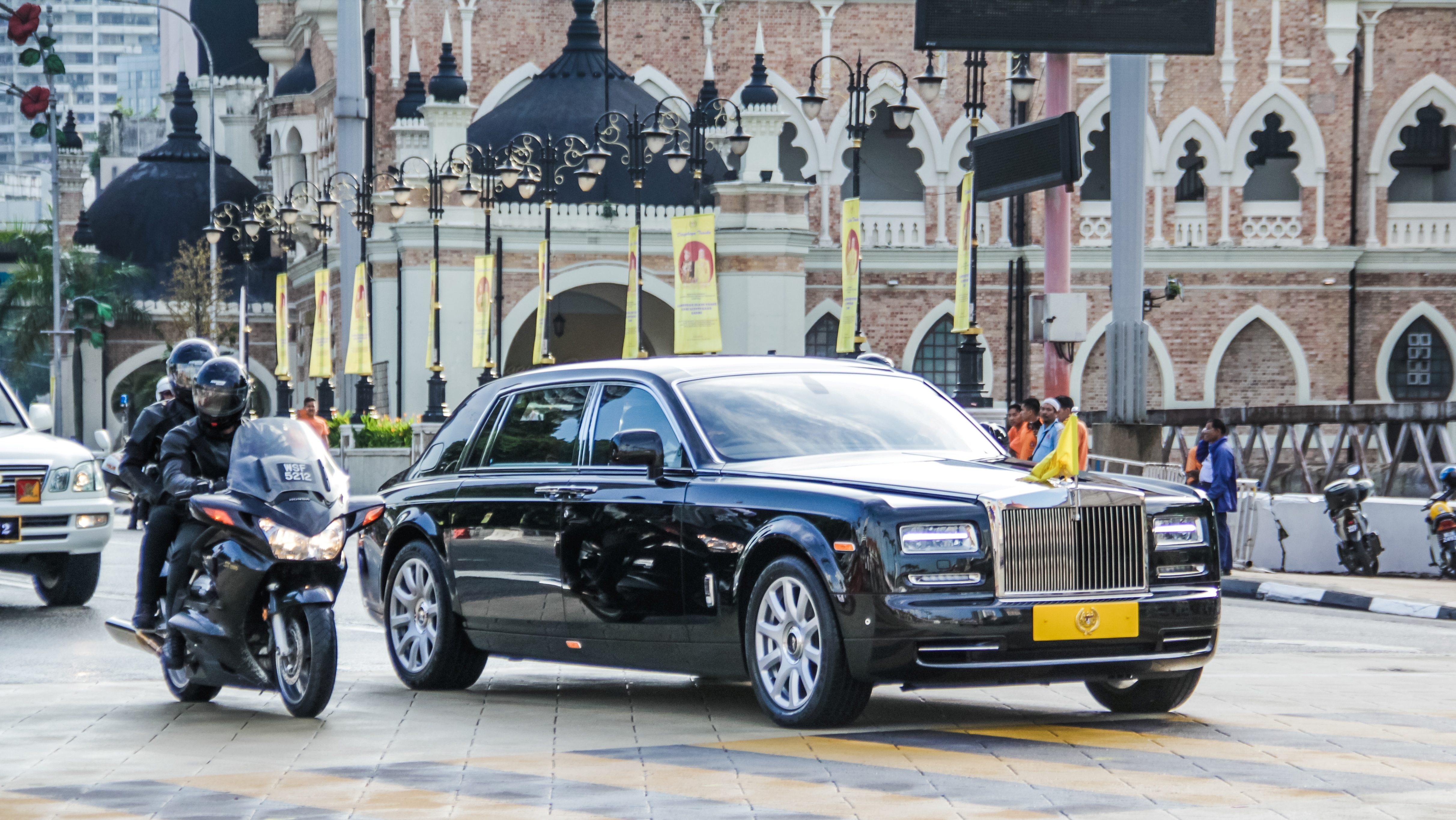 2013 Rolls-Royce Phantom Series II in Kuala Lumpur, Malaysia.Designed in the United Kingdom & Germany + , Assembled in the United Kingdom Note : This car belongs to Tuanku Abdul Halim of Kedah, the 14th Yang di-Pertuan Agong of Malaysia.